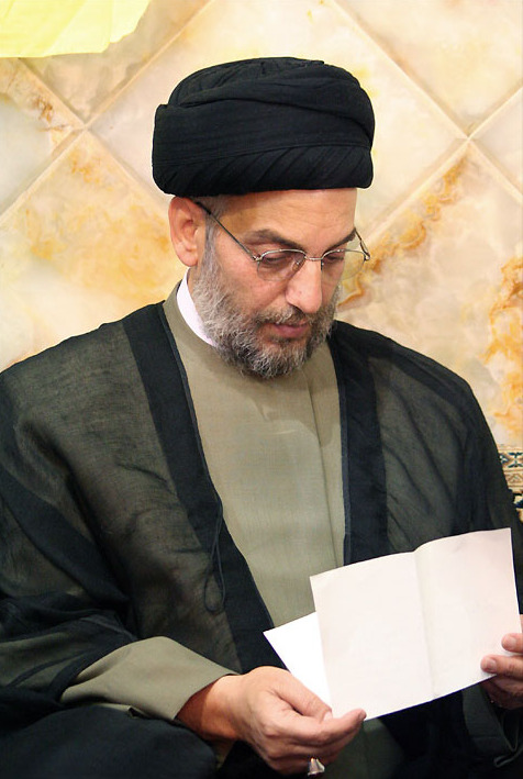 Abdul Aziz al-Hakim, dead Iraqi Shia cleric.